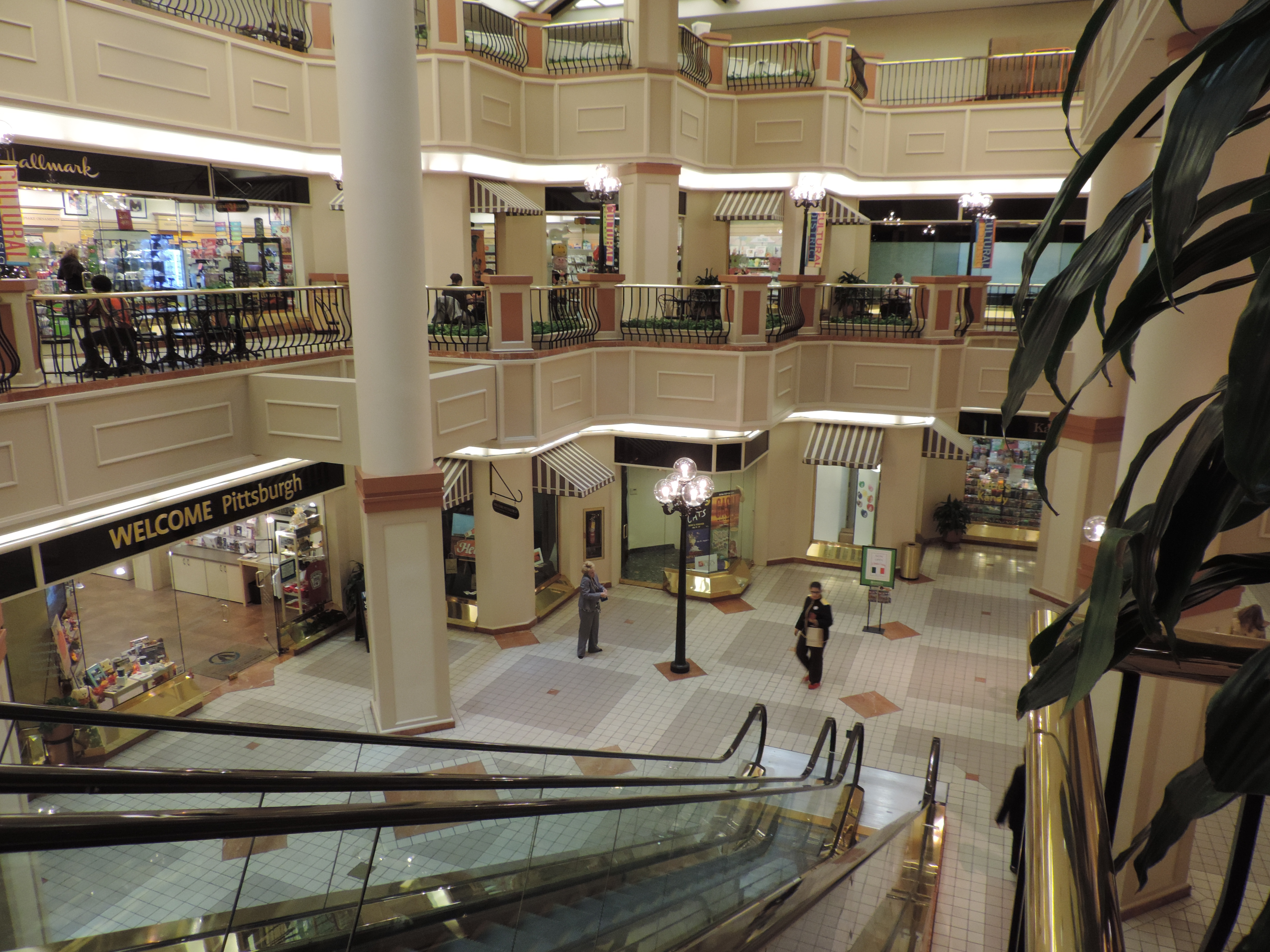 Looking northwest from second floor.